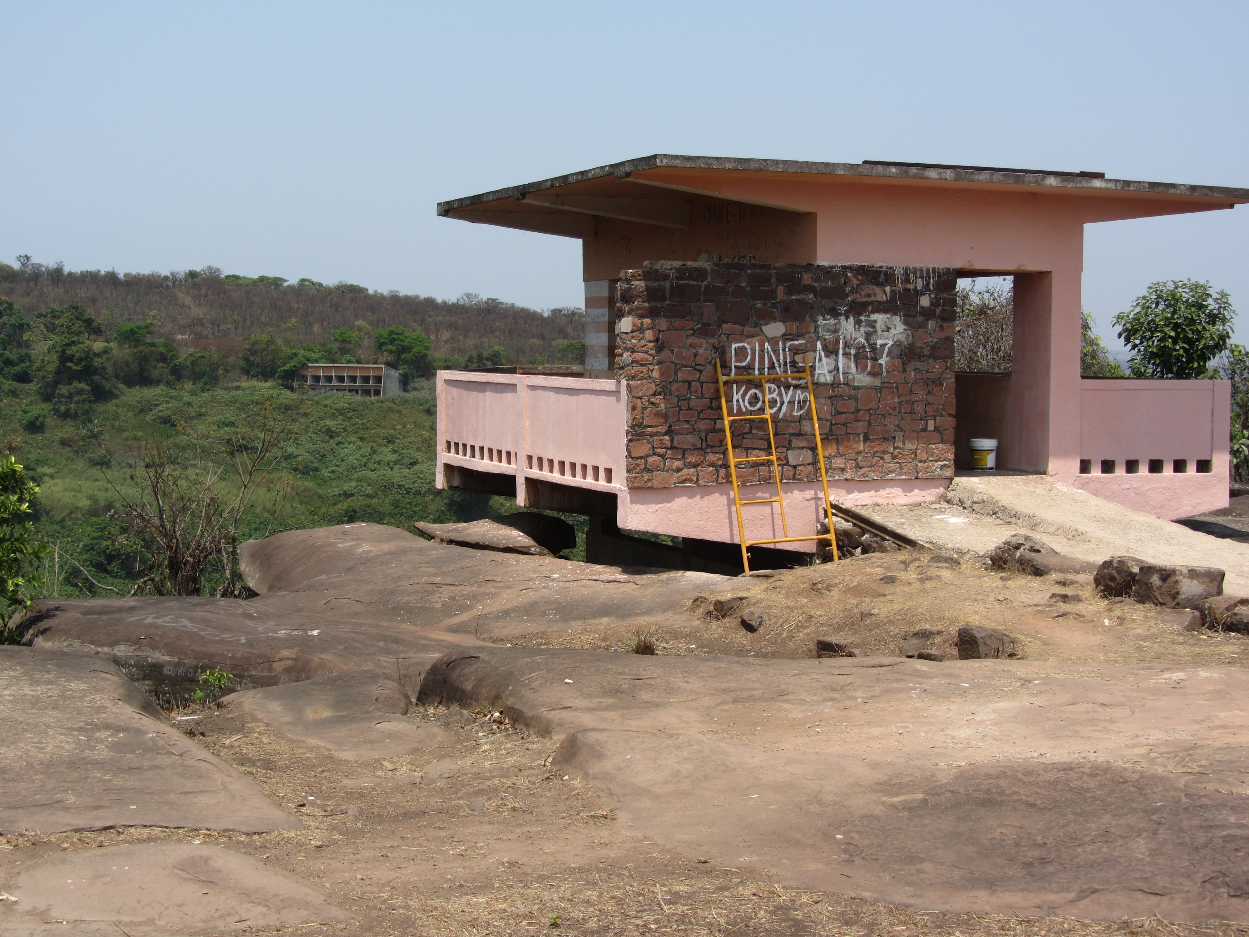 There are visitor places on both sides of the canyon formed by the Kalandula Falls